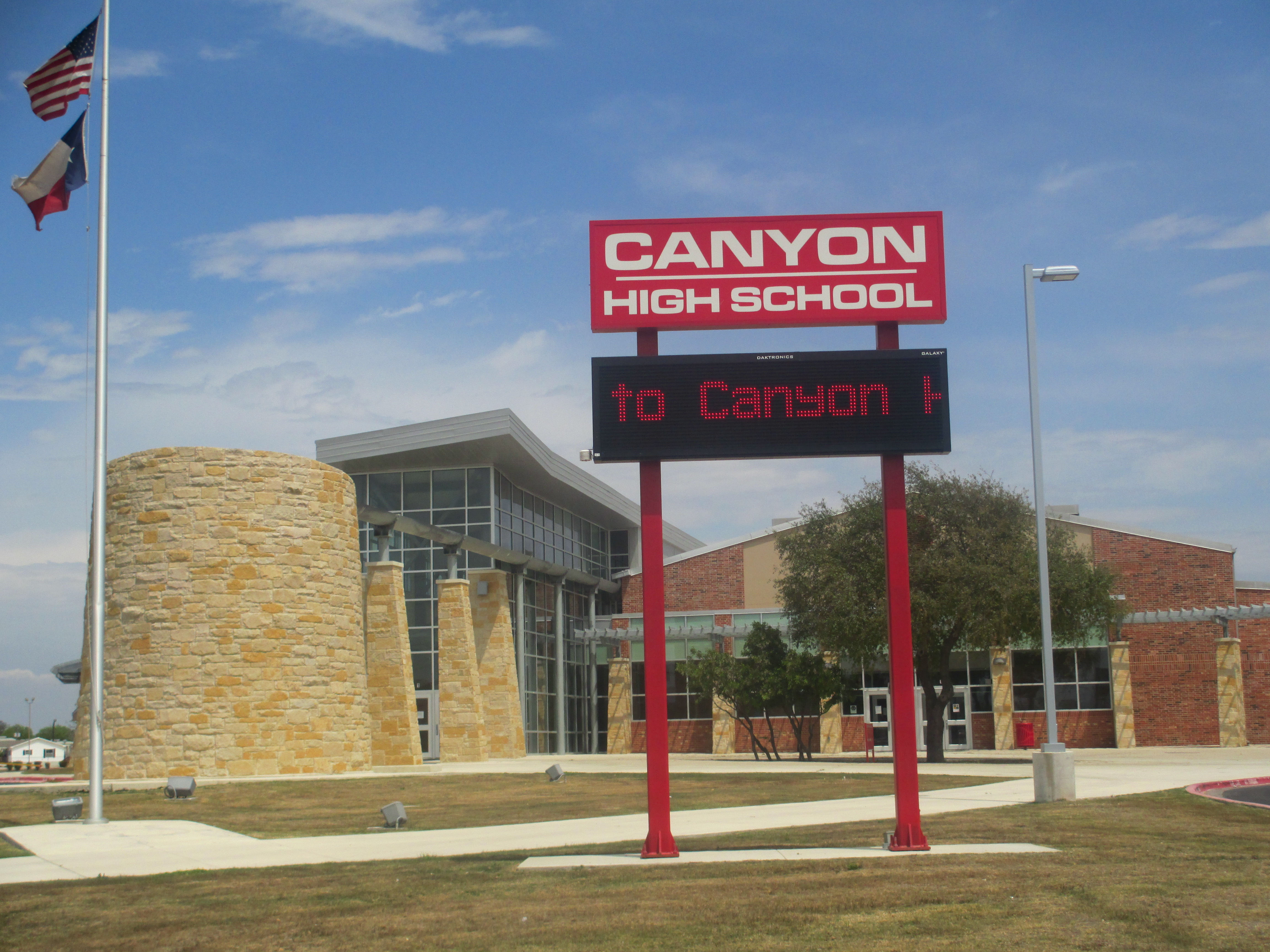 I took photo of Canyon High School in New Braunfels, TX, with Canon camera, March 31, 2013. Billy Hathorn (talk) 02:11, 12 April 2013 (UTC)